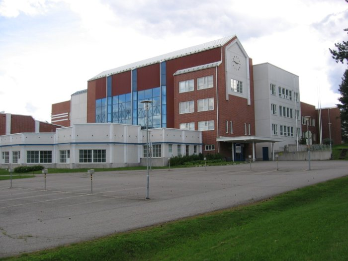 Viirikangas Campus of Rovaniemi University of Applied Sciences.